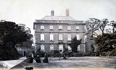 Potternewton Hall Estate, near Leeds. Members of the Lupton family in estate grounds. circa 1860-70.